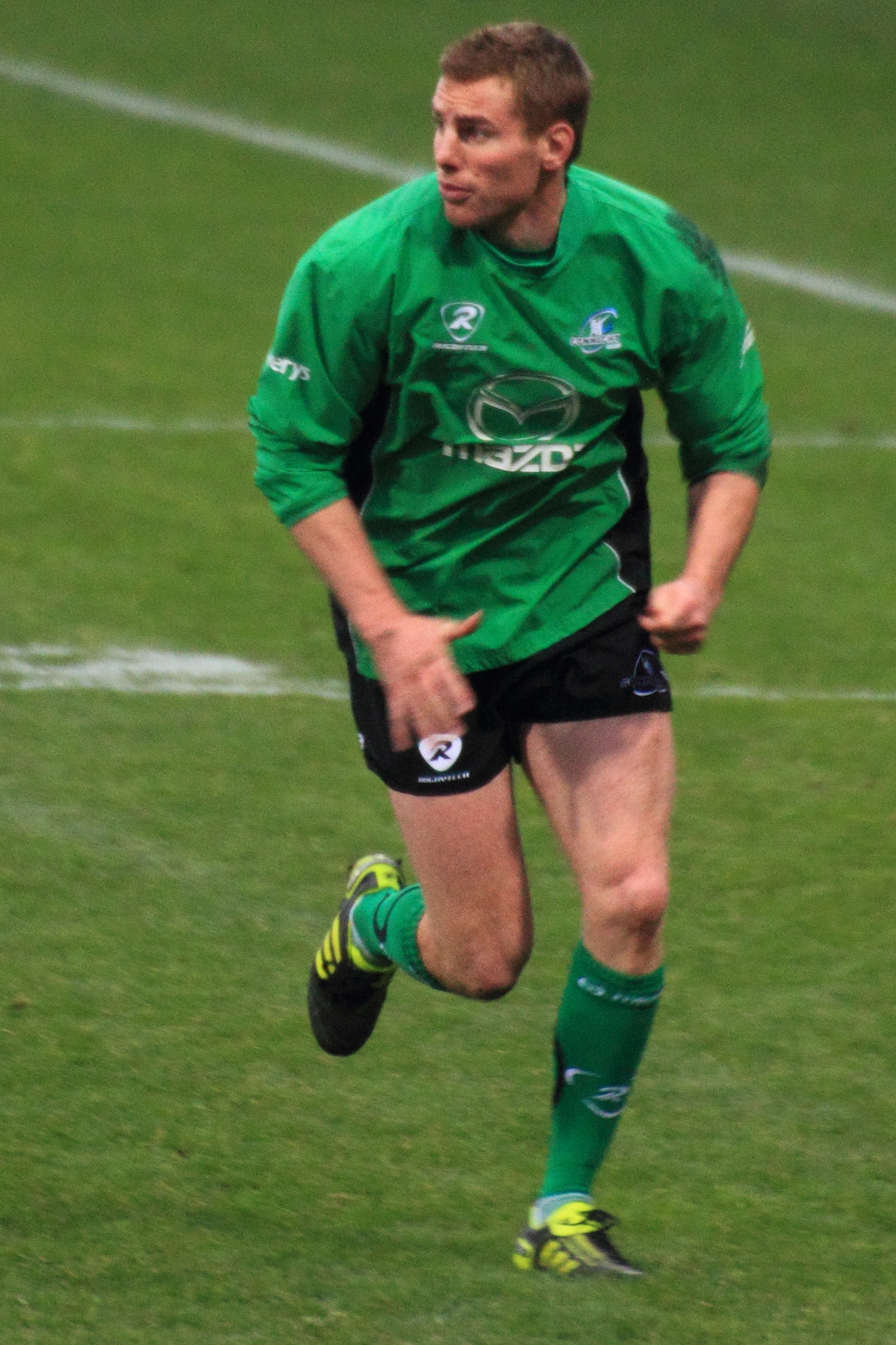 Heineken Cup 2011-2012 — 14 January 2012, Stade Ernest-Wallon. Match between: Stade toulousain — Connacht Rugby